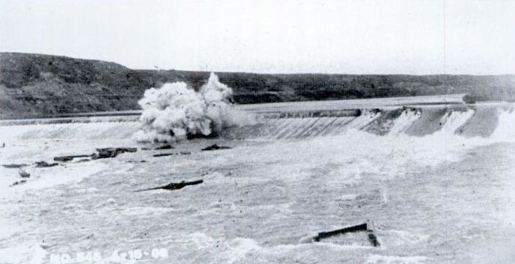 Black Eagle Dam is dynamited on April 14, 1908 in Montana. A hydroelectric dam on the Missouri River in Great Falls. Hauser Dam upstream had collapsed, and Black Eagle Dam was partially destroyed in order to provide a means for the floodwaters to escape (rather than destroy the dam).